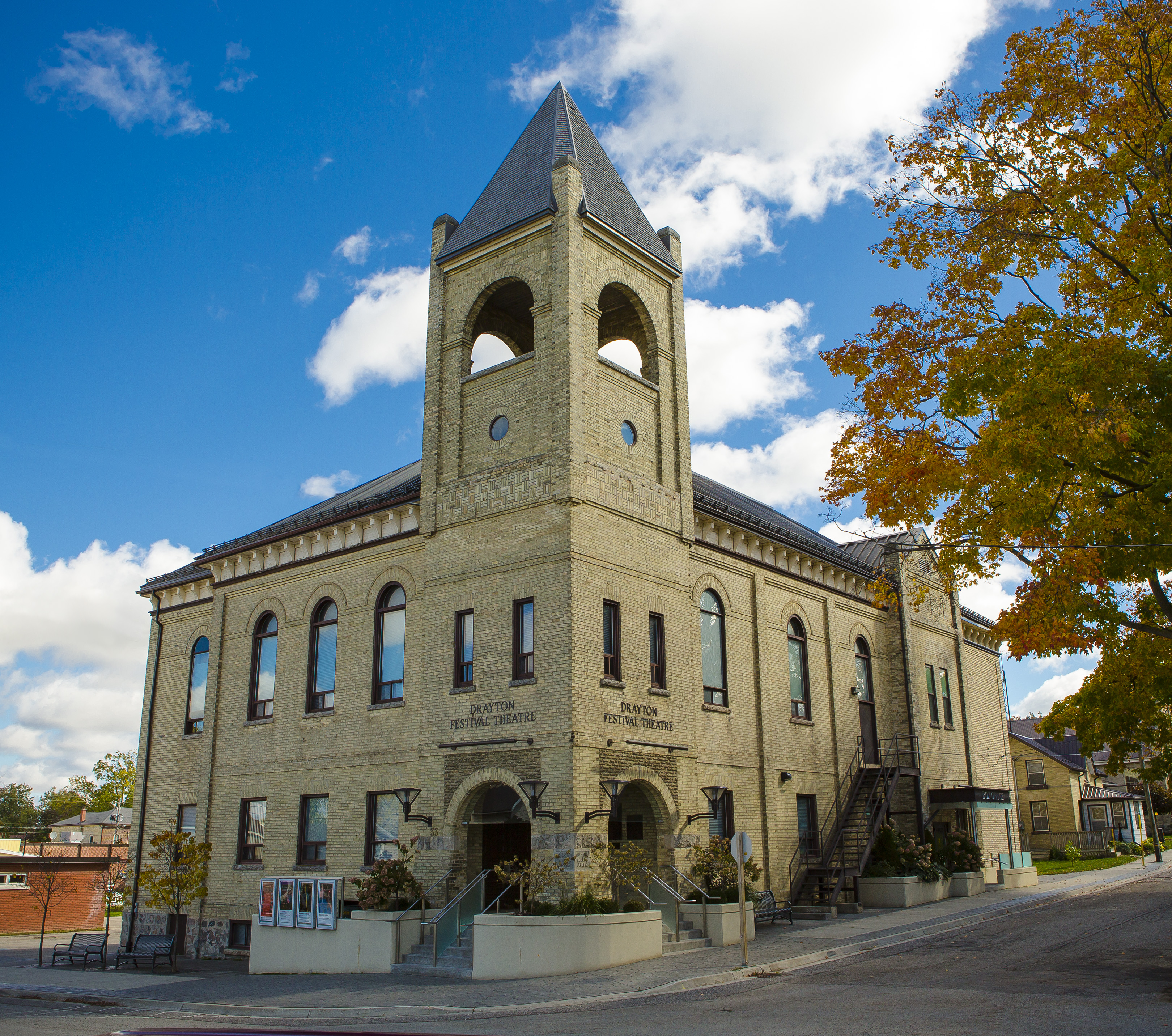 Drayton Festival Theatre - 2016